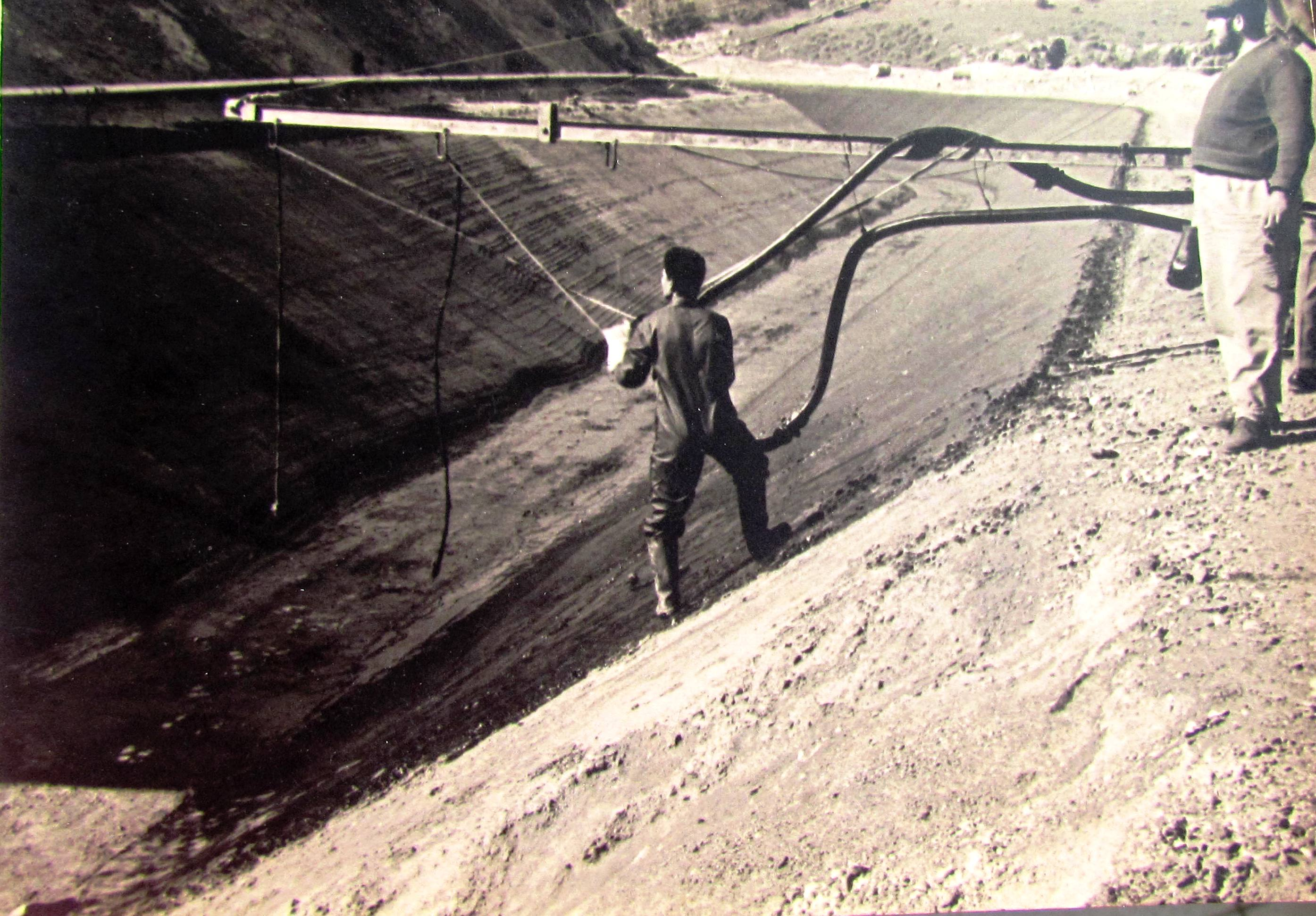 Events in Israel